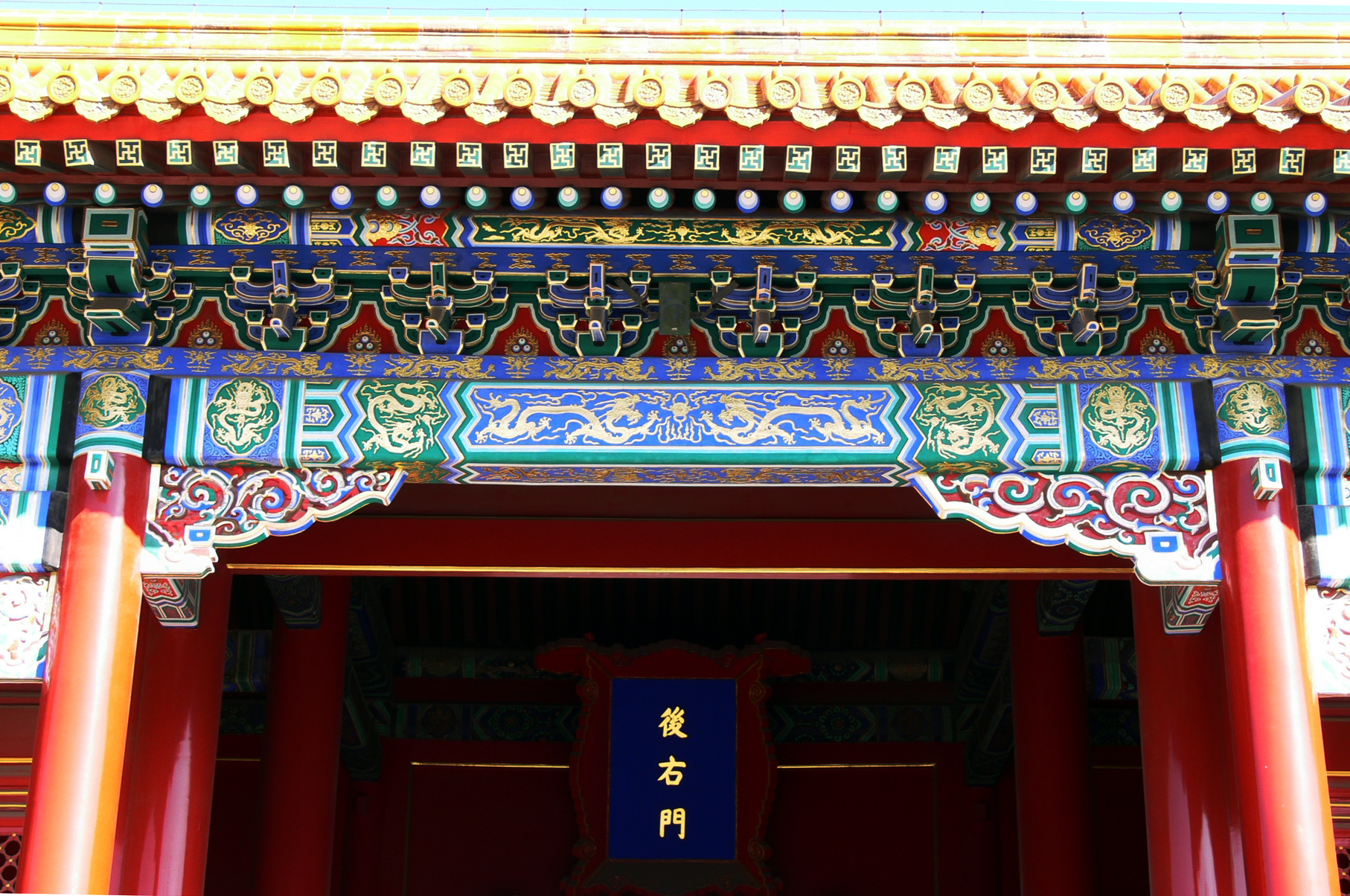 Imperial Palace color decorative painting.